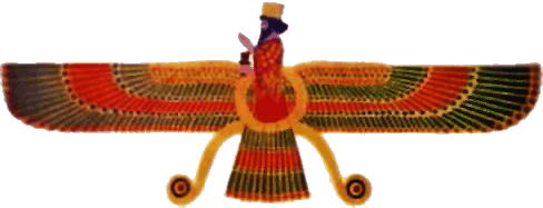 symbol of persian god